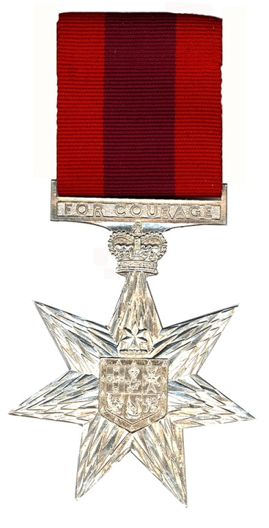 Star of Courage